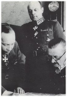 Hauptquartiermeister Aksel Airo presenting a plan to Marshal of Finland C. G. E Mannerheim during Continuation War. Behind, Chief of General Staff Erik Heinrichs.